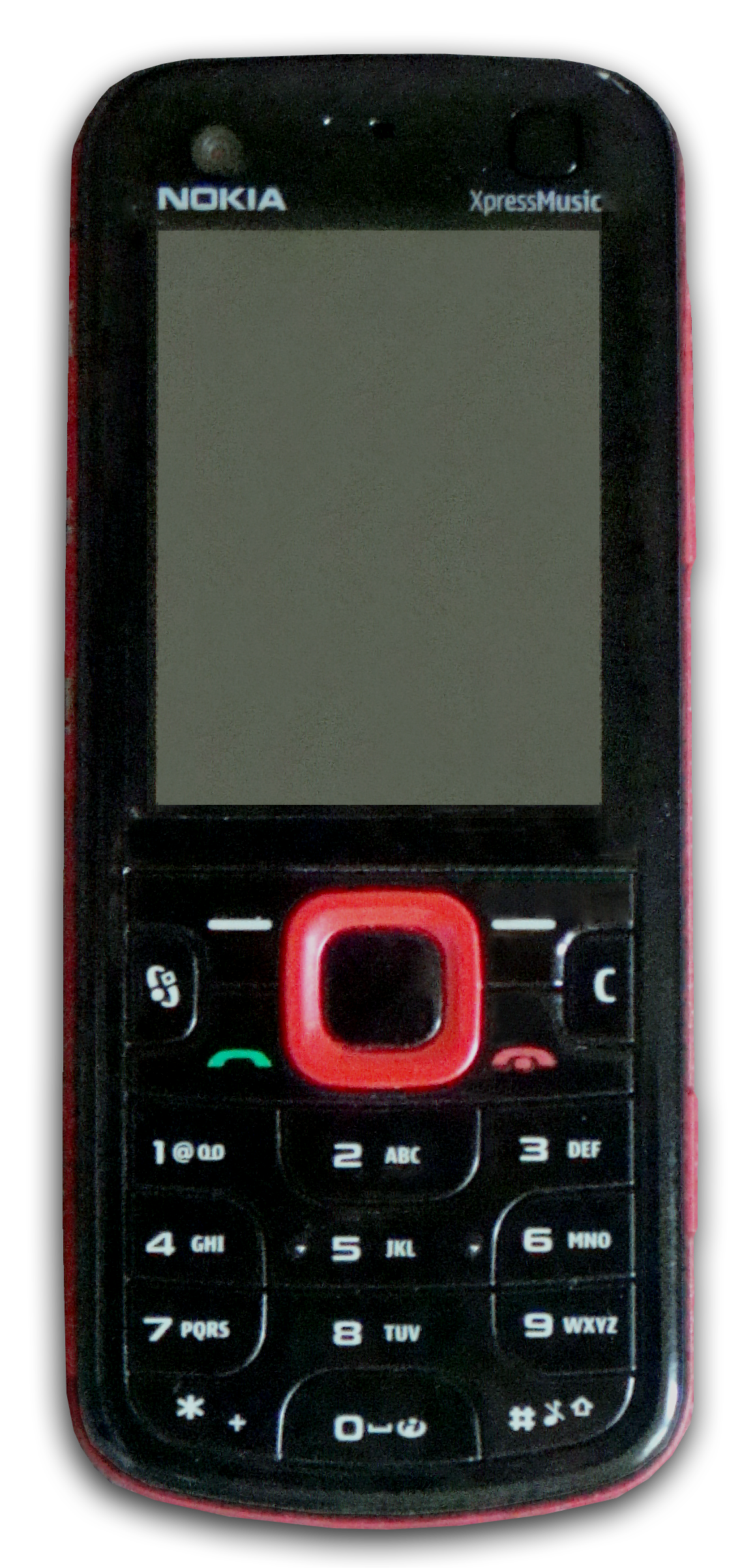 Photo of a Nokia 5320 XpressMusic, taken by the author.